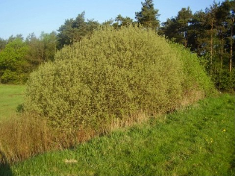 Salix cinerea (female) habitus in spring (Northern Germany)